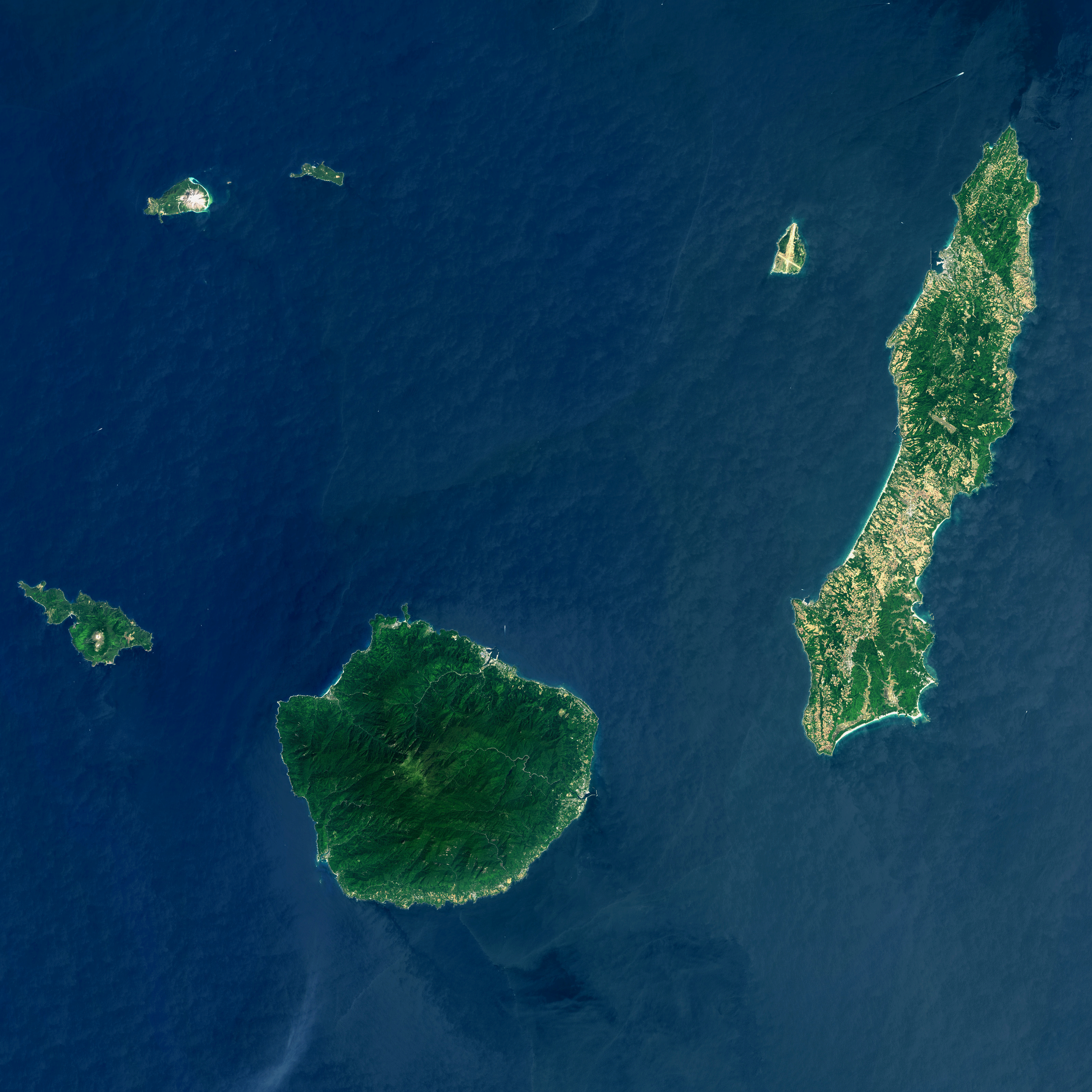 This Landsat 8 satellite image of the Ōsumi Islands in Japan. Tanegashima (right side), Mageshima (left of Tanegashima), Yakushima (bottom center), Kuchinoerabu-jima (bottom left side), Iōjima (top left side), Takeshima (right of Iōjima).